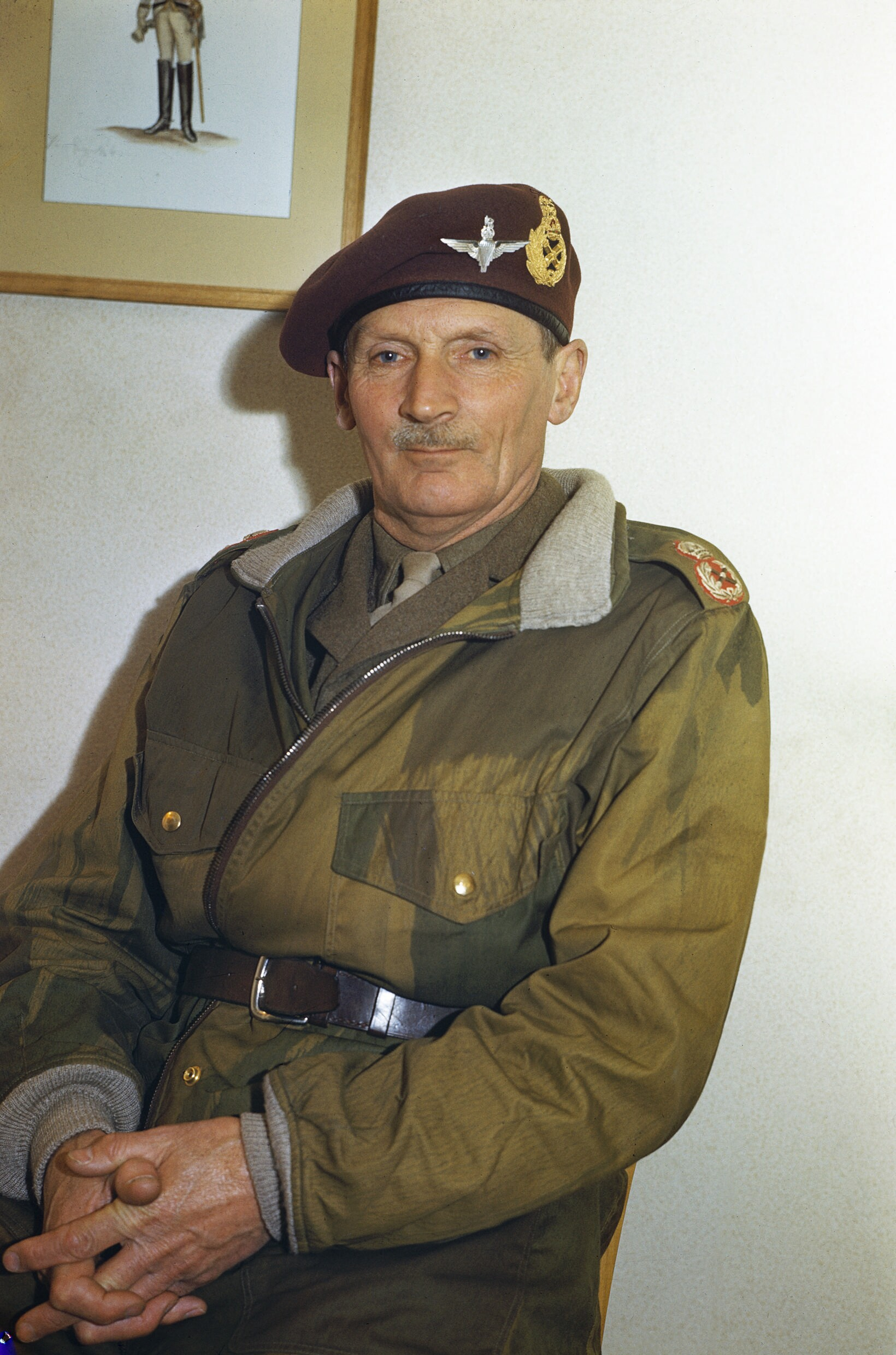 Field Marshal Sir Bernard Montgomery, 1944 Portrait of Field Marshal Sir Bernard Montgomery on his appointment as Colonel Commandant of the Parachute Regiment. Field Marshal Montgomery is wearing the beret and jumping jacket of the Parachute Regiment. His scarf is similar to those worn by British paratroopers when they were dropped in Normandy on the night of 5 - 6 June 1944.